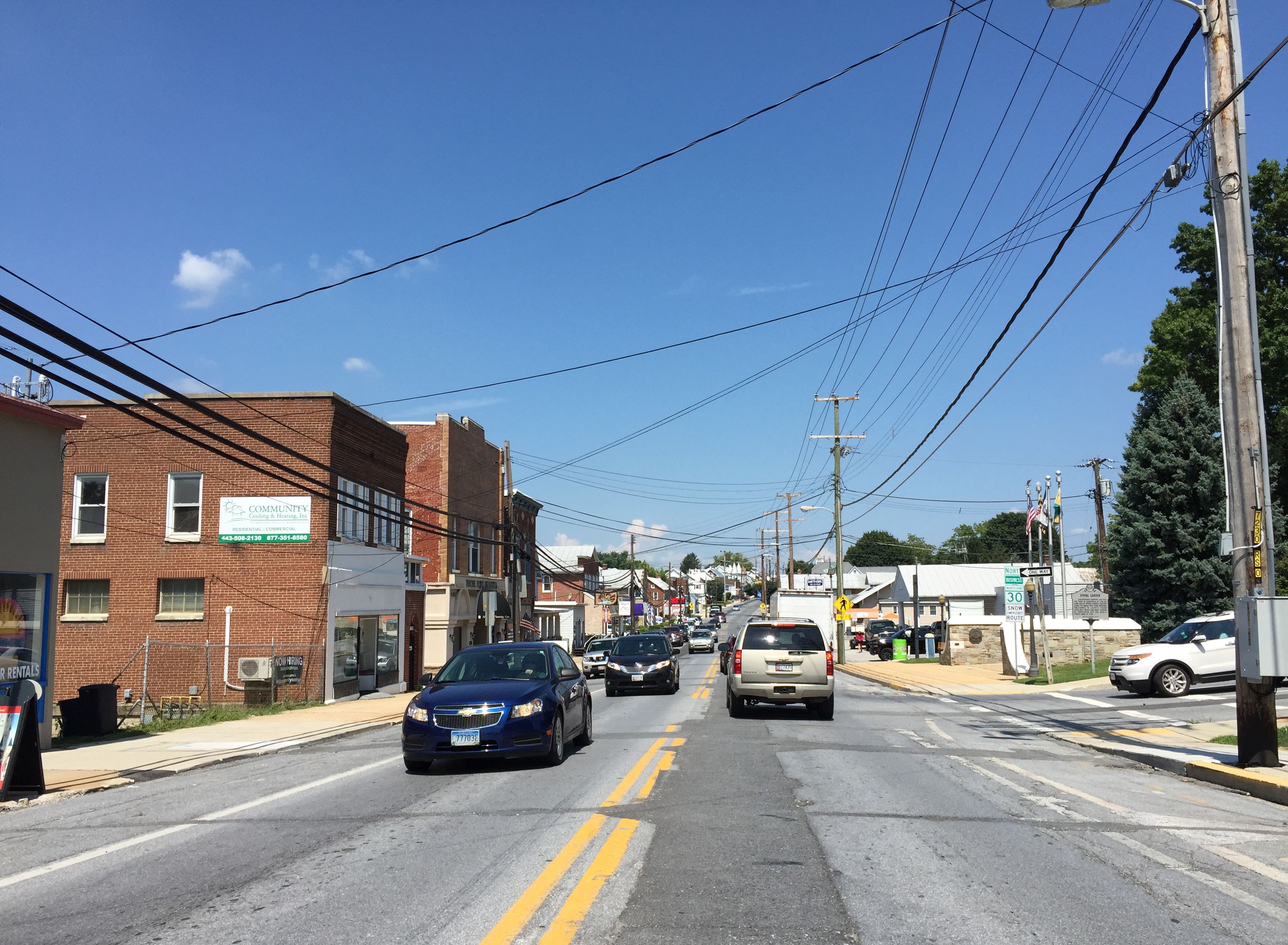 View north along Maryland State Route 30 Business (Main Street) at Maryland State Route 833 (Black Rock Road) in Hampstead, Carroll County, Maryland